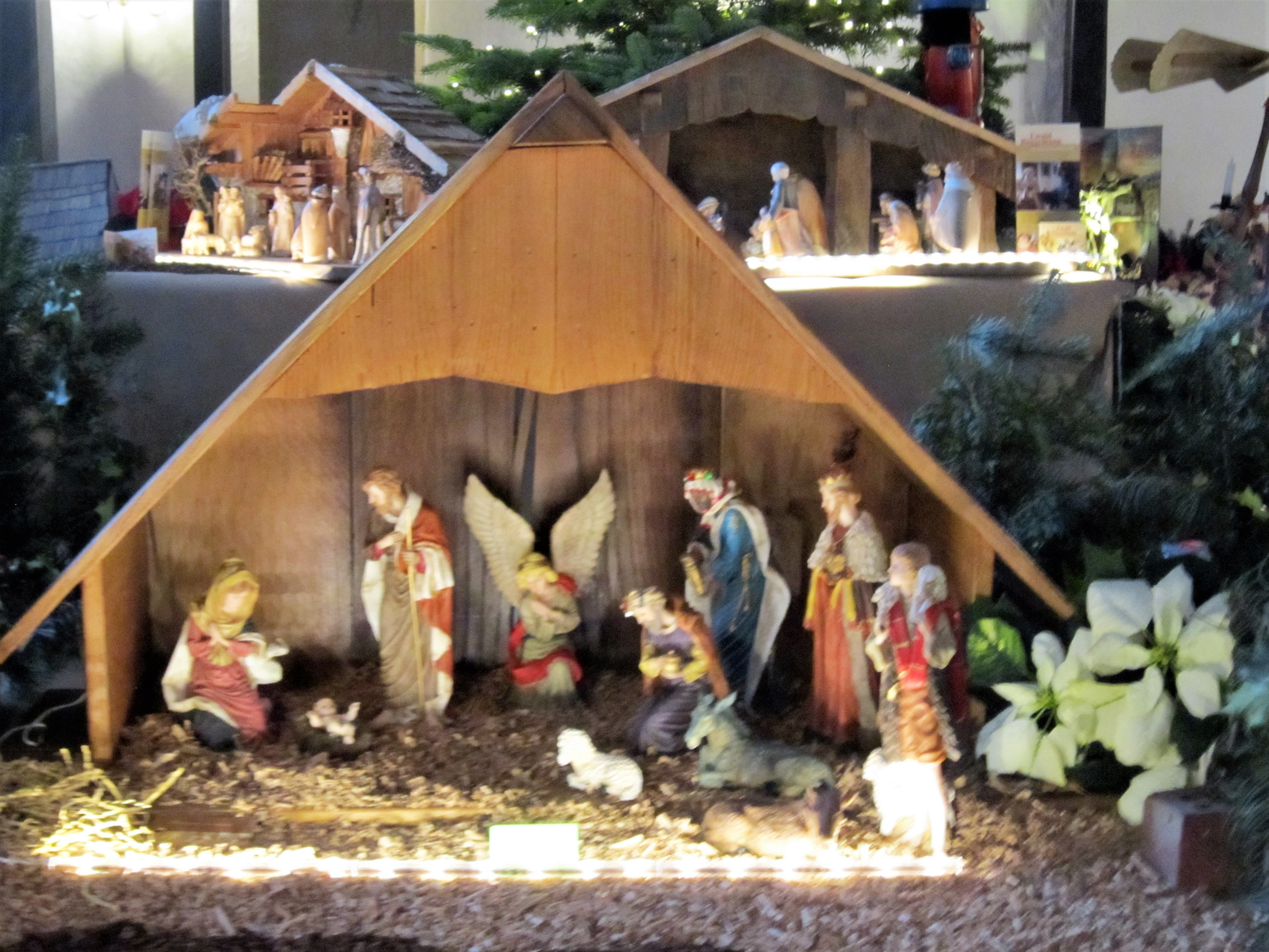 Exhibition of nativity scenes in "Evangelische Stadtkirche Lengerich"